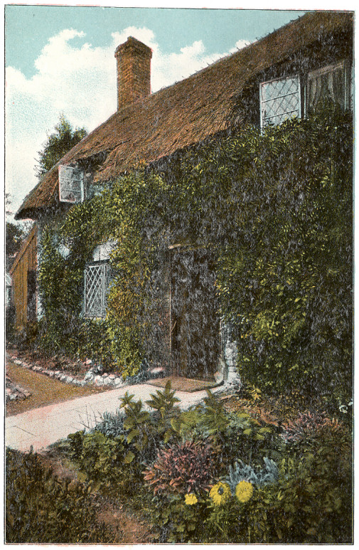 Little Jane's Cottage, Brading This cottage retains its original appearance with thatched roof and diamond window-panes, traditional Isle of Wight cottage. The little forecourt and garden are well-kept. Plants covering the front, of great variety, from the yellow jessamine to the red fuchsia, with flowers under and around the windows. Jane the young cottager lived here when Rev. Legh Richmond was Vicar of Brading in the early part of last century. Her tombstone is at the back of Brading Church.